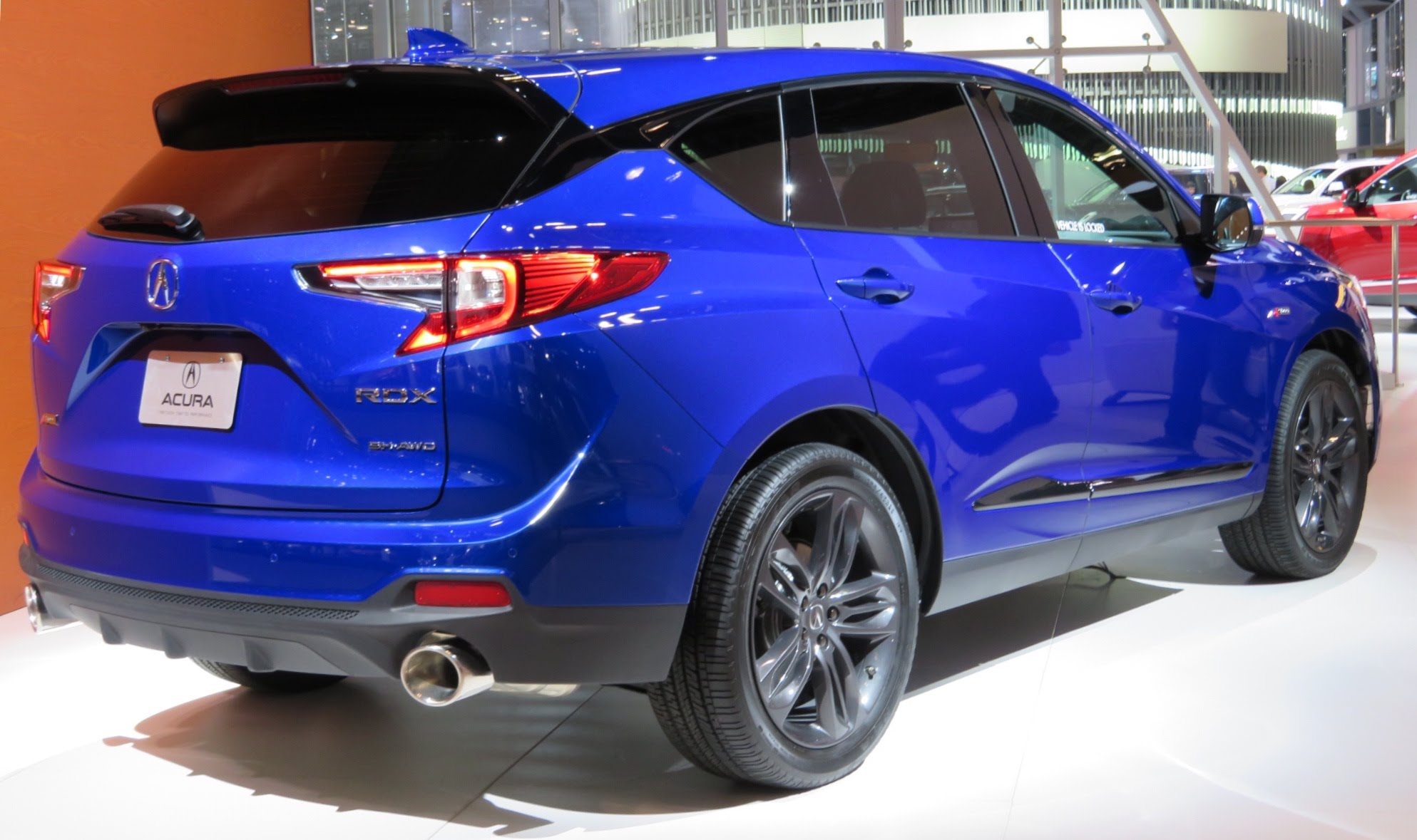 In New York International Auto Show, at Manhattan, New York, USA.